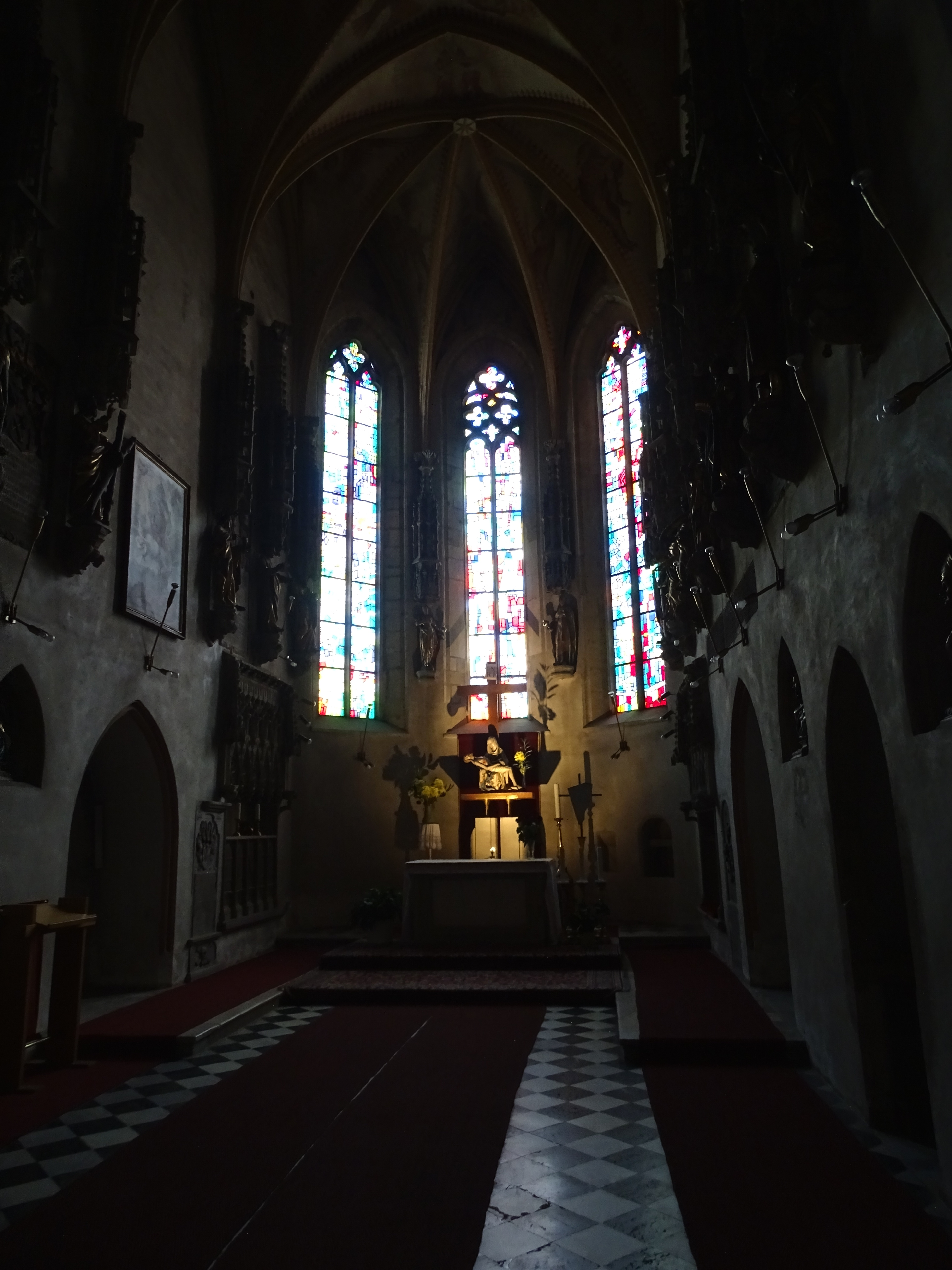 Marys chapel in Daniels church in Celje